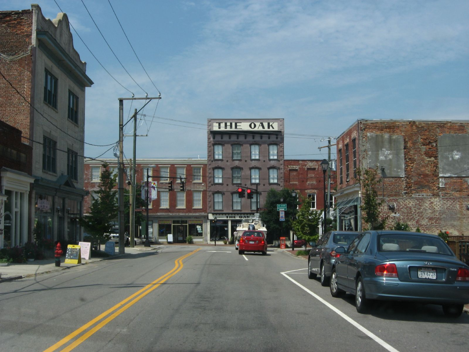 The Oak Antique Mall on North Sycamore Avenue, as seen from Bollingbrook Street in Downtown Petersburg, Virginia.